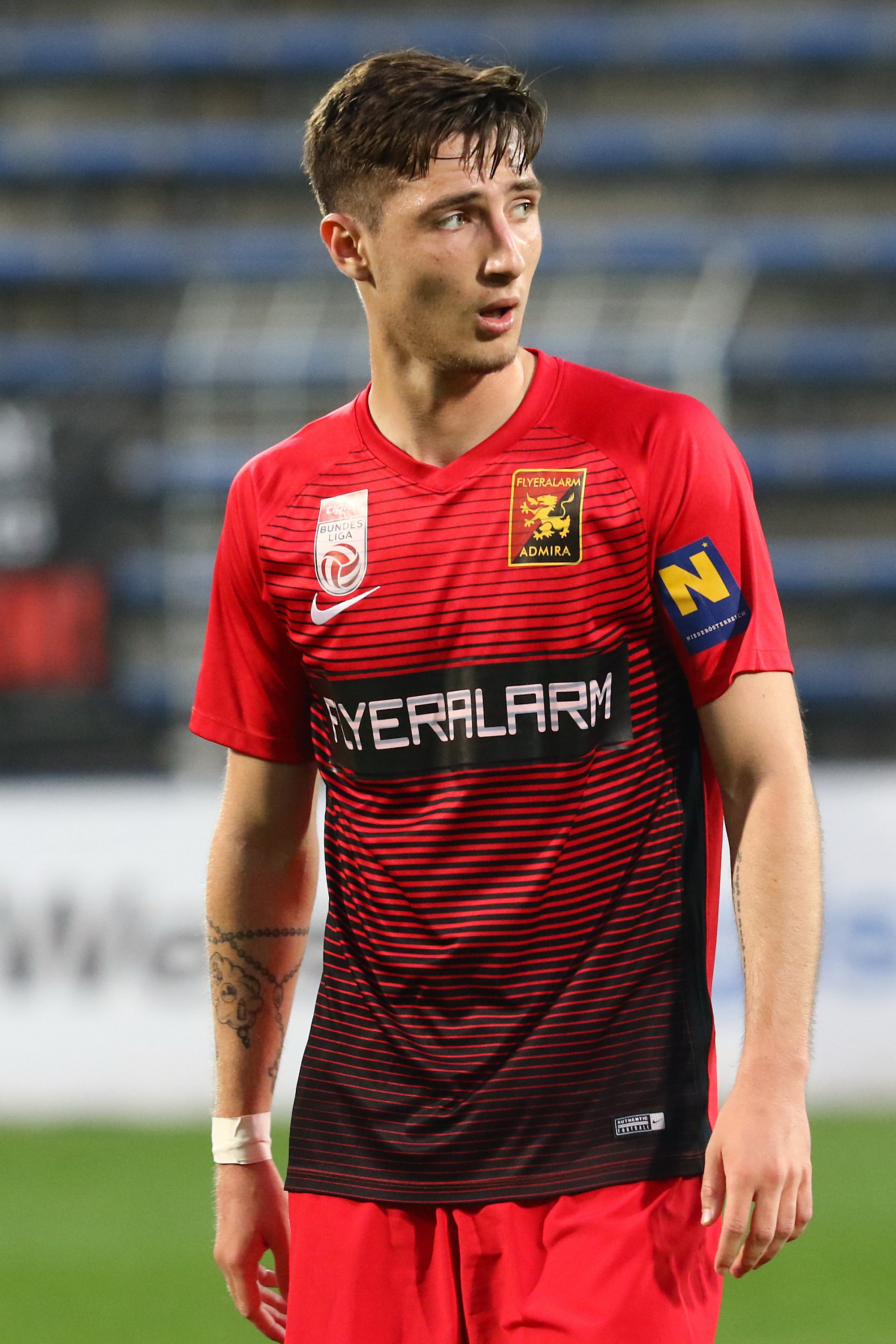 Championshipmatch of the Austrian Bundesliga 2017–18 FC Admira Wacker Mödling (red shirts) vs. FC Red Bull Salzburg (white shirts) 2-6 (1-3) at 2018-04-15 in the Bundesstadion Südstadt in Maria Enzersdorf. – The photo shows Marin Jakoliš (FC Admira Wacker Mödling).